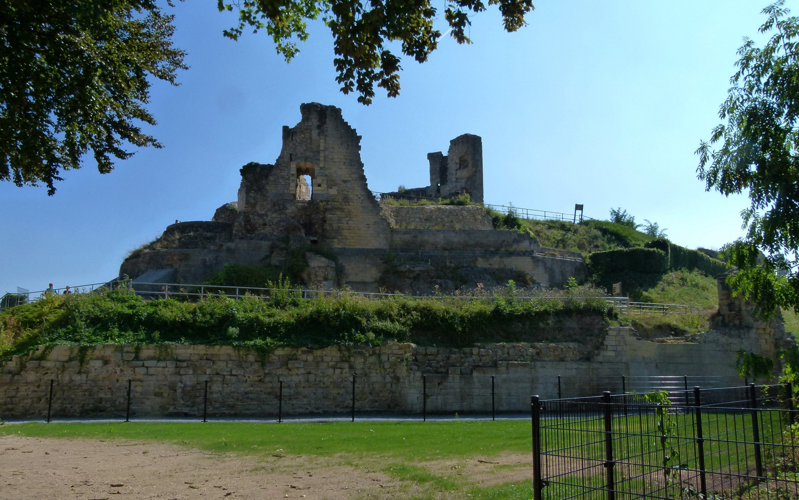 Valkenburg, Limburg, the Netherlands. View of the ruins of Valkenburg Castle, destroyed in 1672.